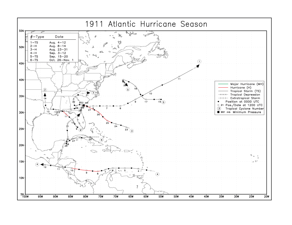 Chris Landsea, formerly of AOML, part of the National Hurricane Center and NOAA